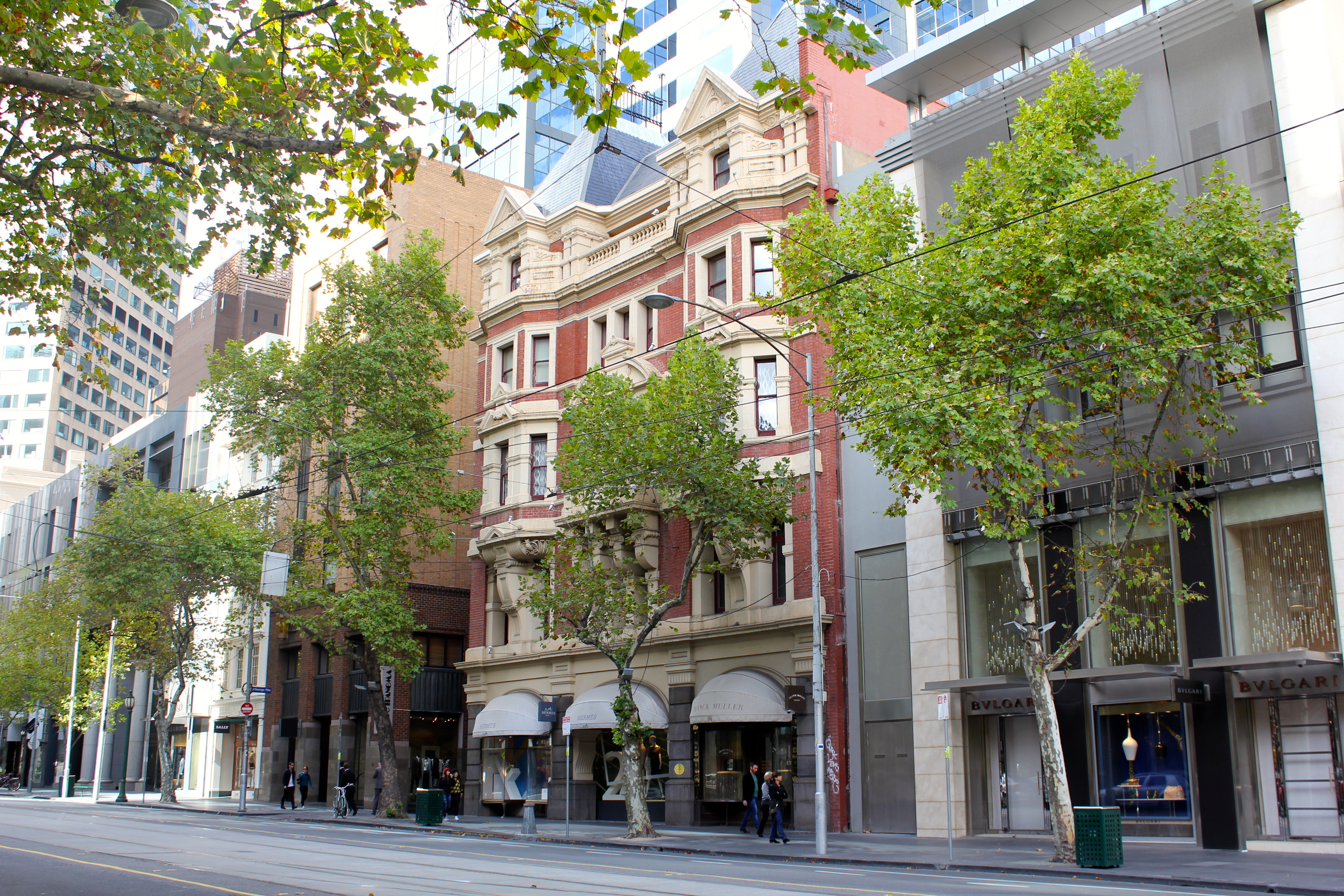 perspective